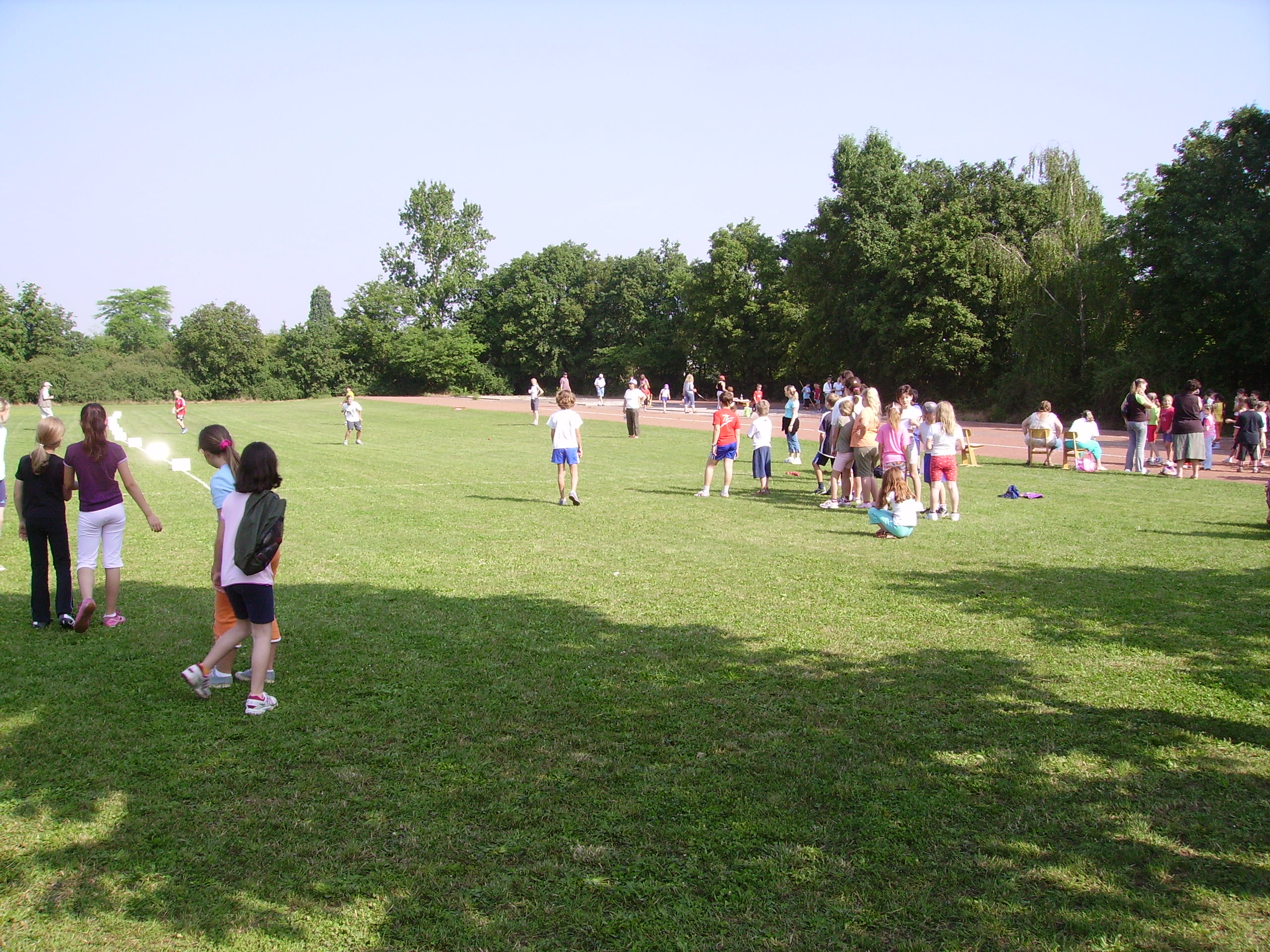 Bundesjugendspiele